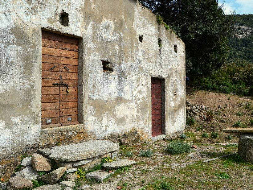 elba island